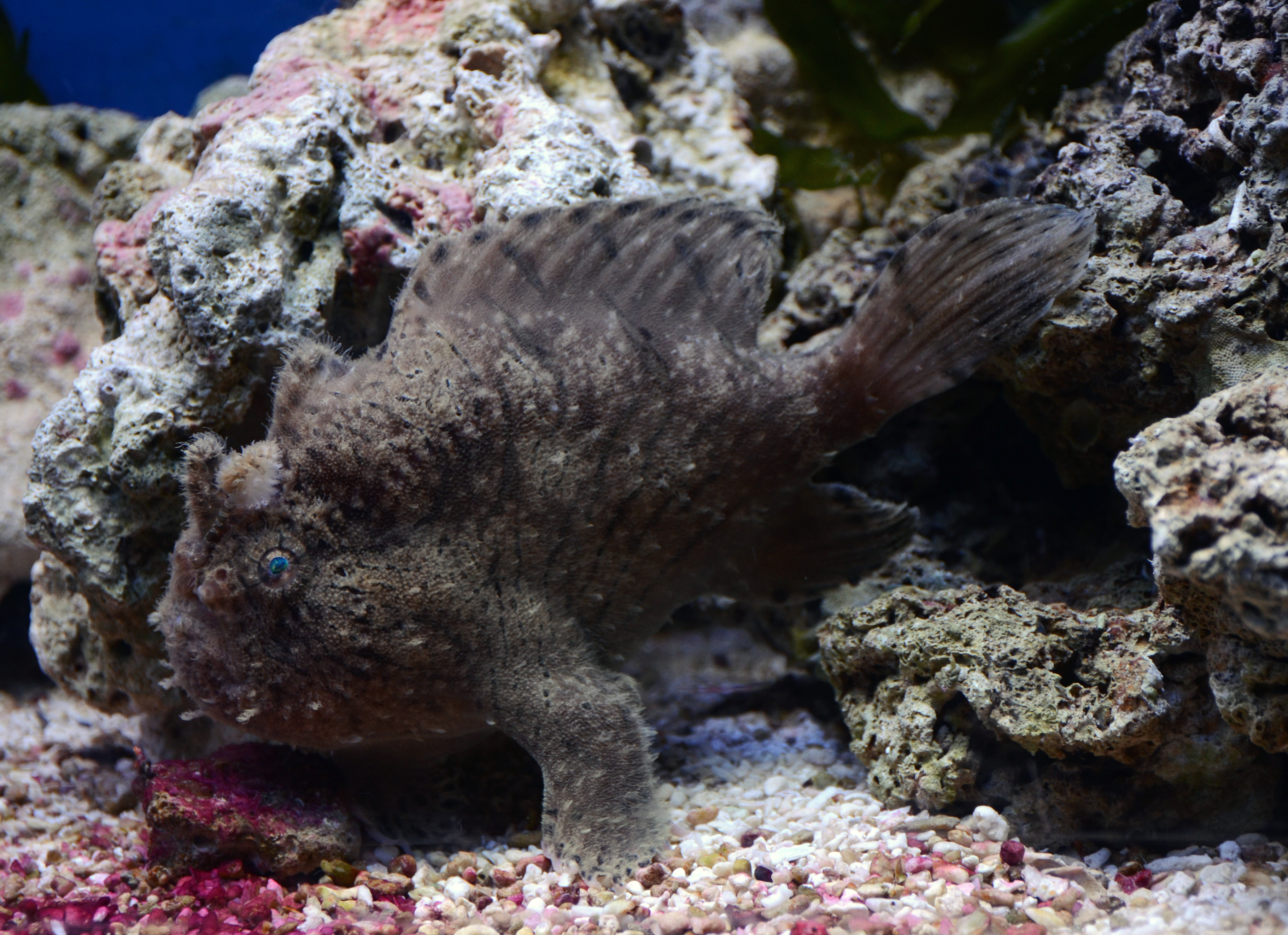 Shaggy angler or hispid frogfish ( Antennarius hispidus ) in Aquarium Dubuisson, in Liège.